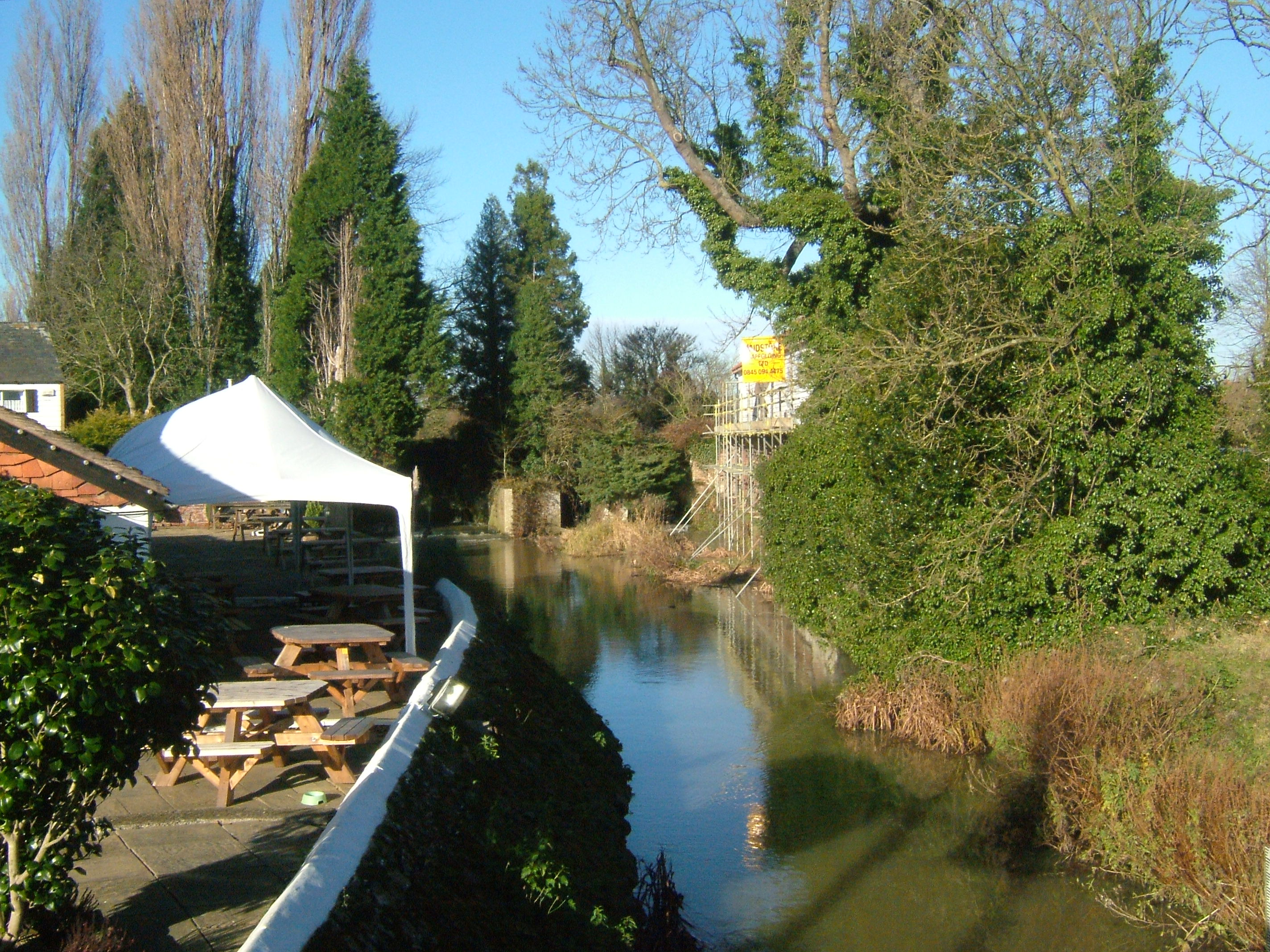 The River Bourne in Kent, England, Is a tributary of the River Medway. The River Bourne at Little Mill. On the south bank is the Man of Kent Pub, and on the north bank the site of the Little Mill. Taken from the road bridge.